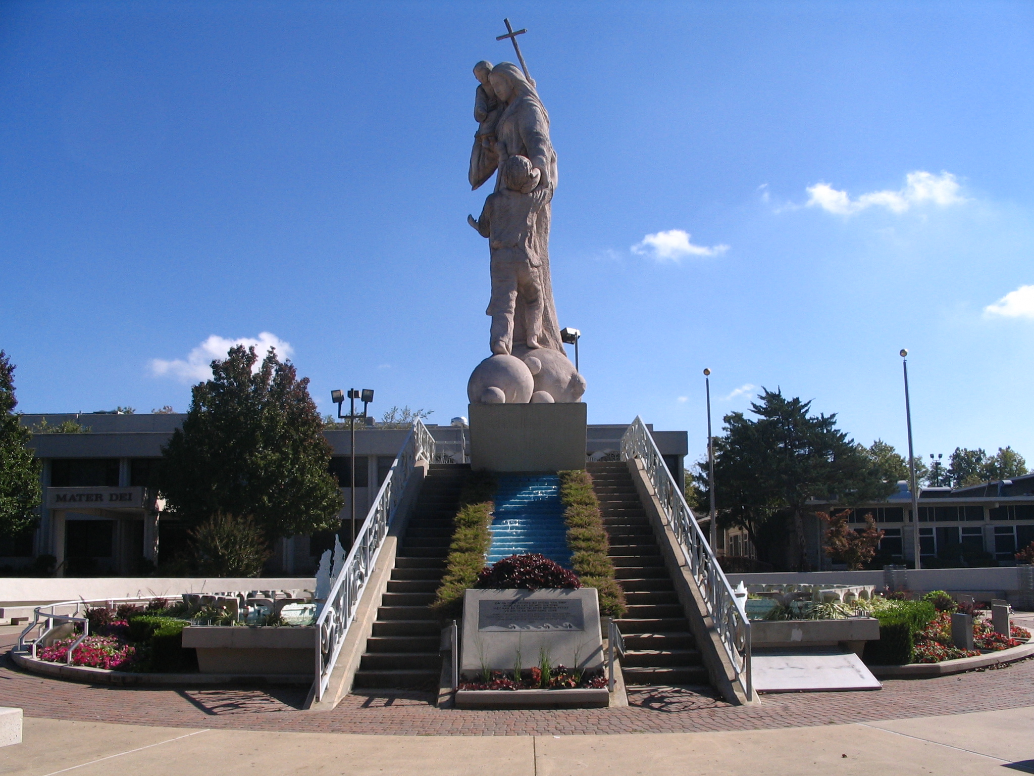 Statue and fountain at Vietnamese CMC monastery (Congregation of the Mother Co-Redemptrix - Chi Dòng Đức Mẹ Đồng Công) in Carthage, Missouri